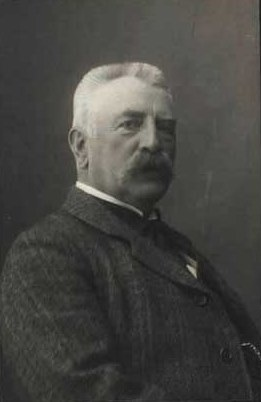 Hans Michael Therkildsen (1850-1925), Danish painter